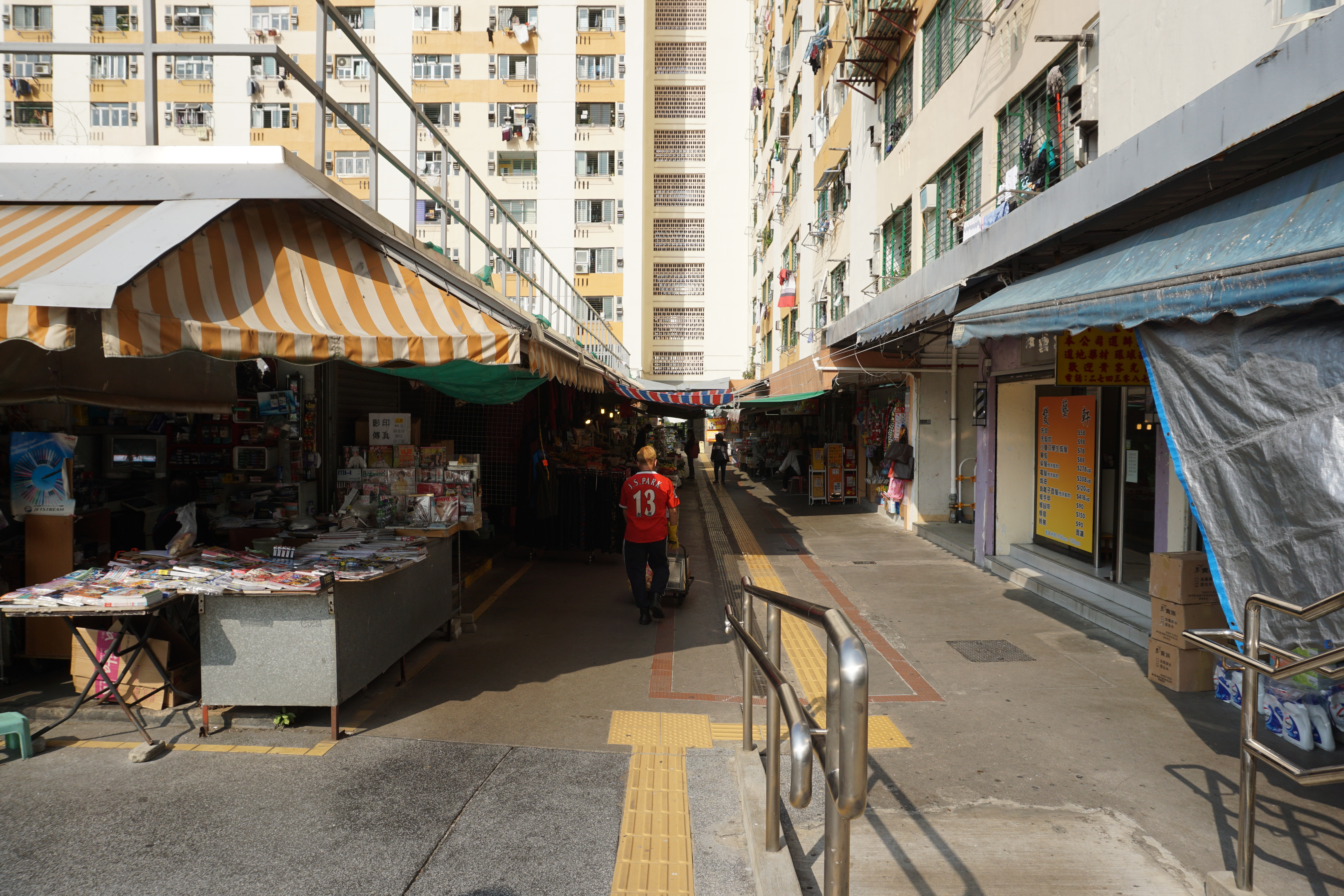 Yat King House in Lai King, Hong Kong.